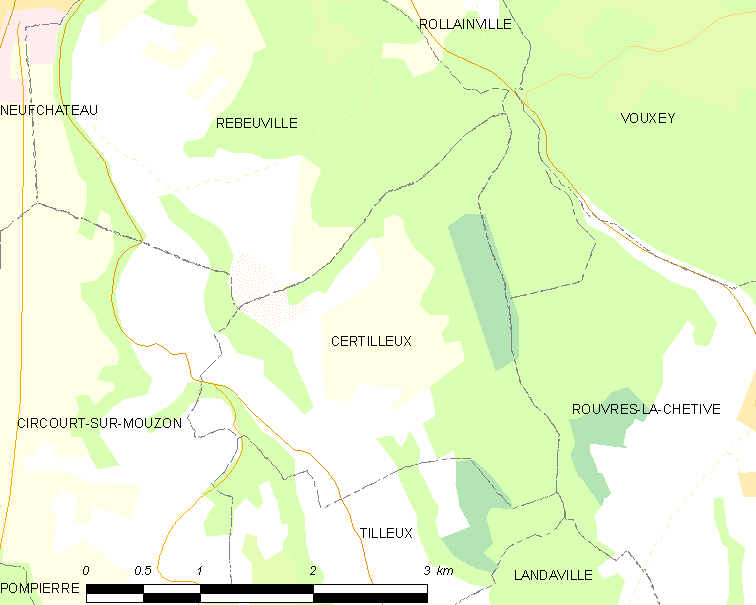 Map of French municipality Certilleux